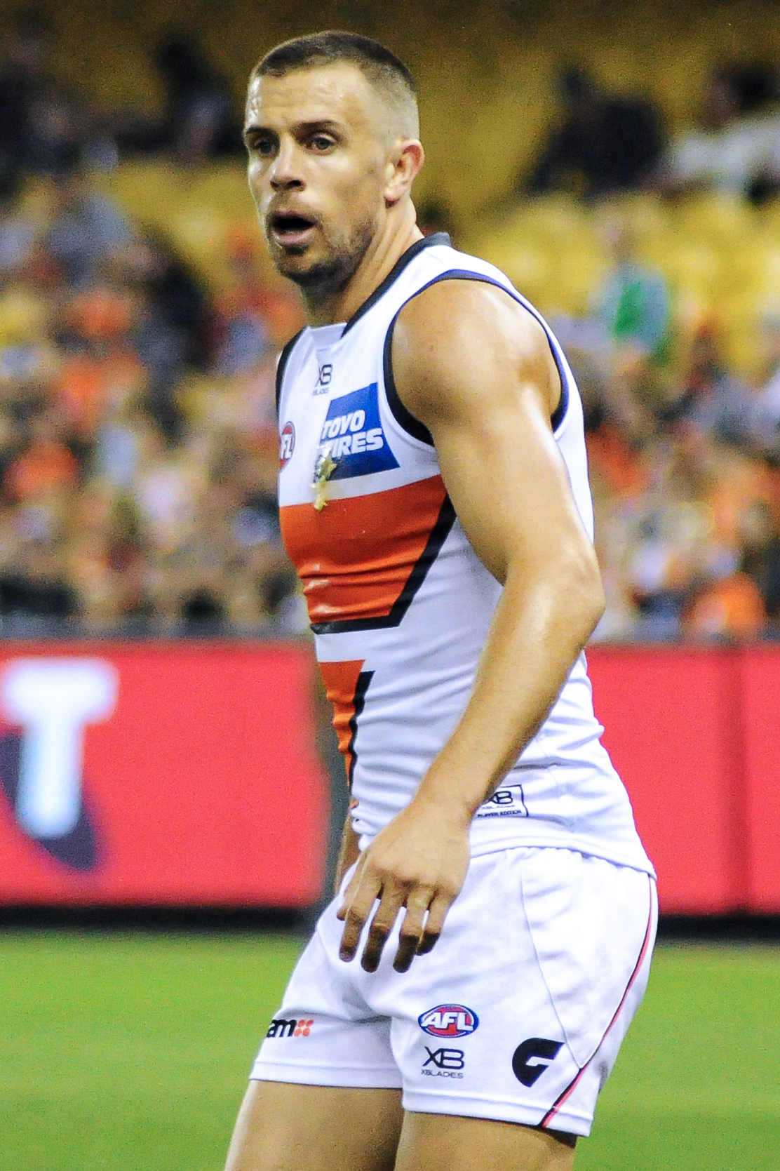 Brett Deledio during the AFL round five match between St Kilda and Greater Western Sydney on 21 April 2018 at Etihad Stadium in Melbourne, Victoria.